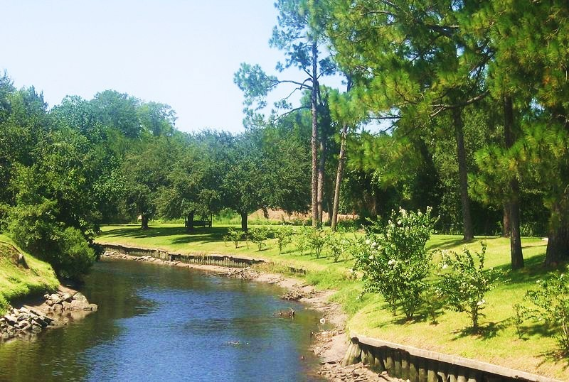 Bayou